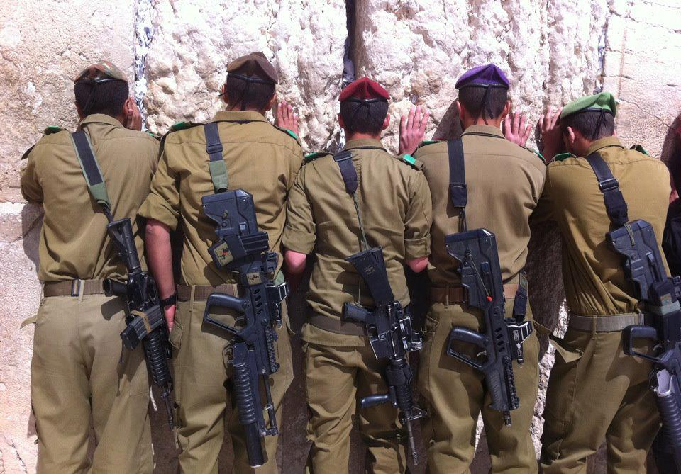 IDF soldiers pray at the Western Wall on Jerusalem Day, which marks when the IDF reunified Jerusalem during the 1967 Six-Day War. From left to right, the soldiers belong to; Kfir Brigade, Golani Brigade, Paratroops Brigade, Givati Brigade, Nahal Brigade. Featured as IDF Photo of the Day on May 20, 2012 The Israel Defense Forces Facebook The Israel Defense Forces blog The Israel Defense Forces website The Israel Defense Forces Twitter